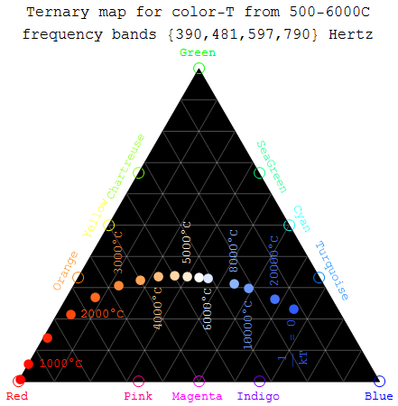 Theoretical Planck-model "white-sun" ternary plot for visible-light color-temperature from left to right between 500°C (the temperature around which objects begin to glow in the visible) and 6000°C (slightly more than the color temperature of the Sun) with intervals of size 500°C. The next two intervals represent changes by 2000°C, with the blue dot to the right of the first large gap corresponding to 8,000°C, followed another at 10,000°C. The next to last dot rightward is at 20,000°C, with the far right dot near {R,G,B} ≈ {0.12,0.23,0.65} representing the zero-coldness 1/kT (i.e. infinite-temperature) point.